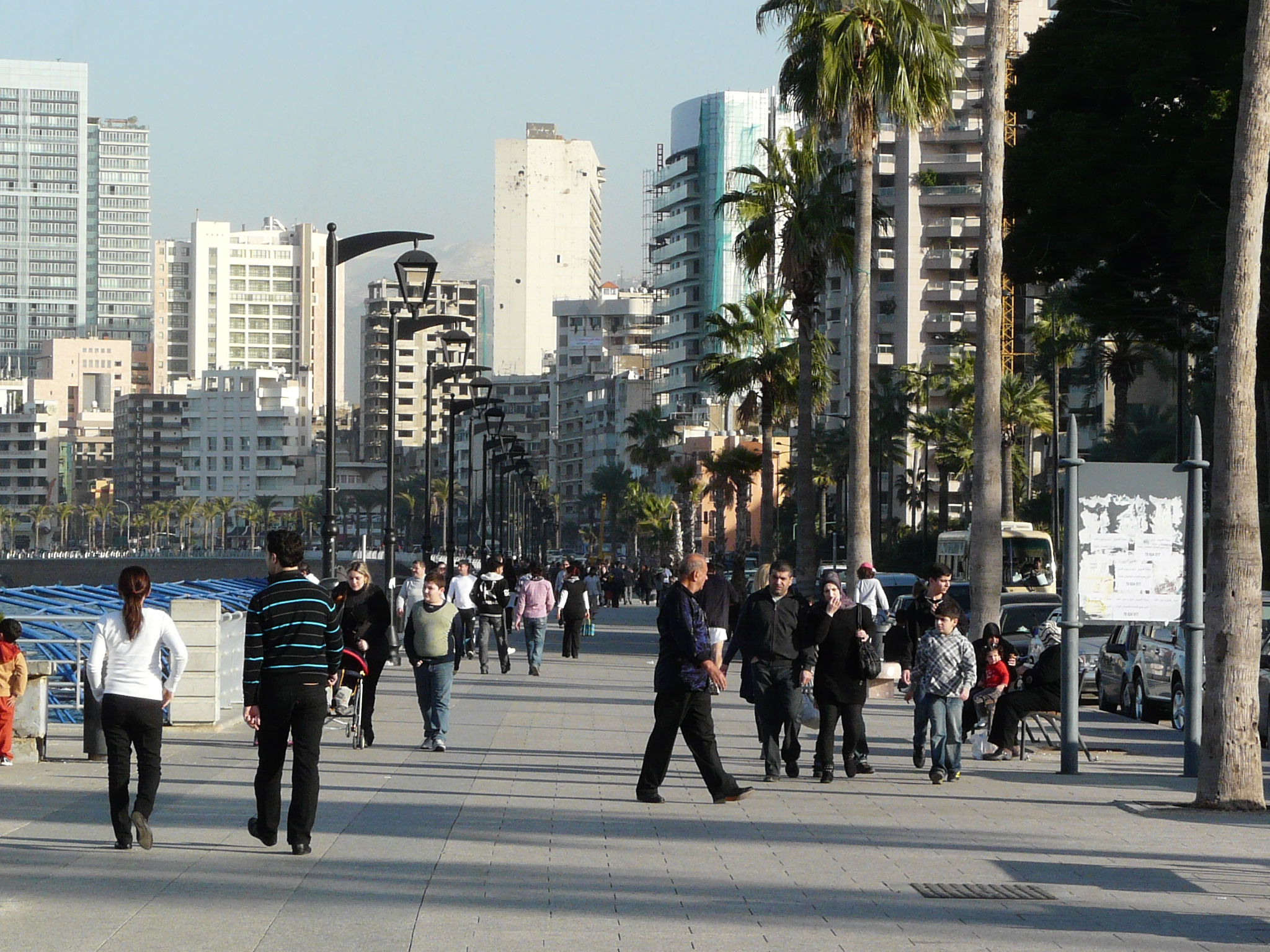 Corniche